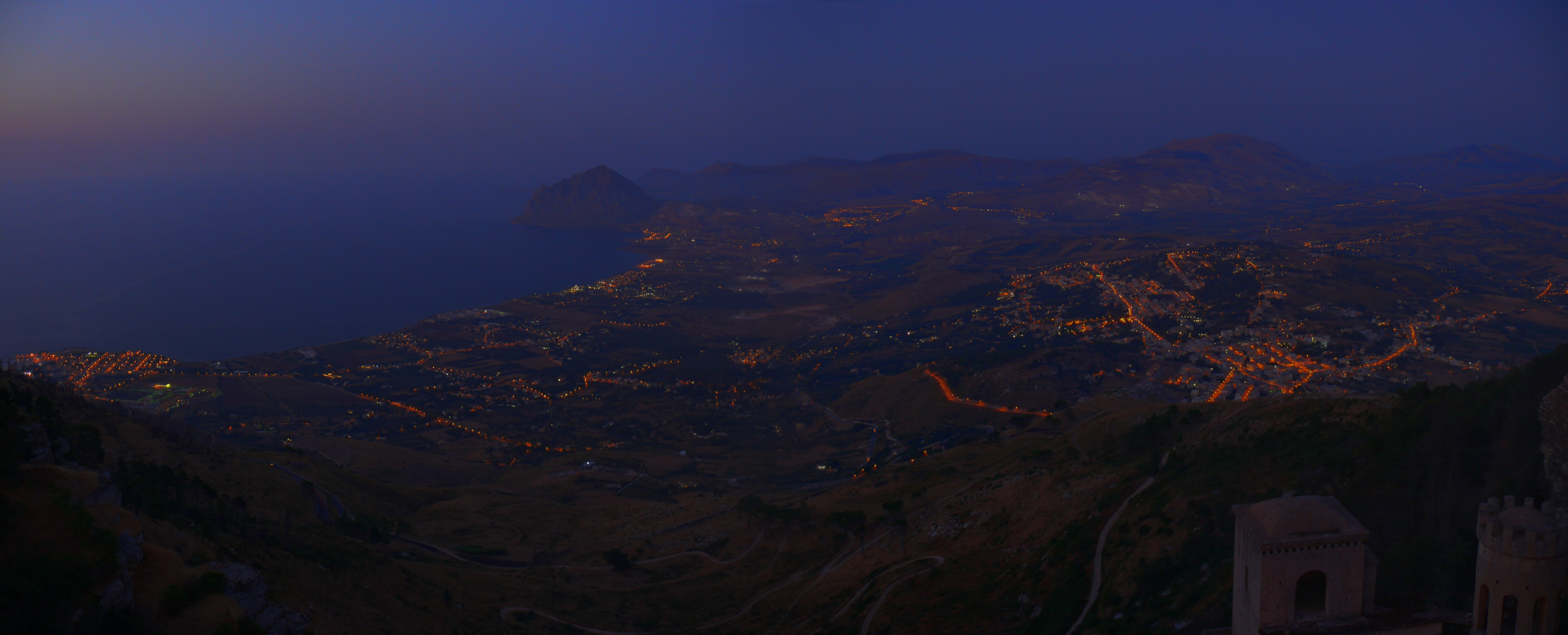 Bonagia and Valderice taken from Erice by Gabriel Valentini